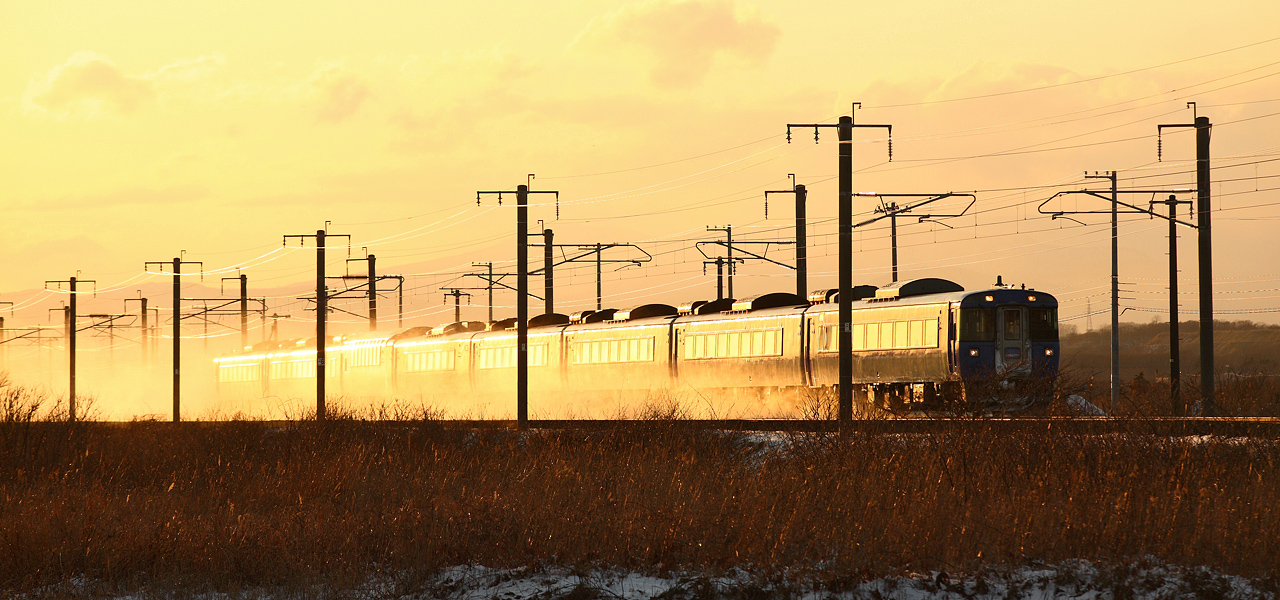 JR Hokkaido's JNR N183 series DMU, operating as the LTD. Express Hokuto 11 ( 5011D, Kiha 183-4560, Kiha 182-6001 and others. Syadai Stn. - Nishikioka Stn. )